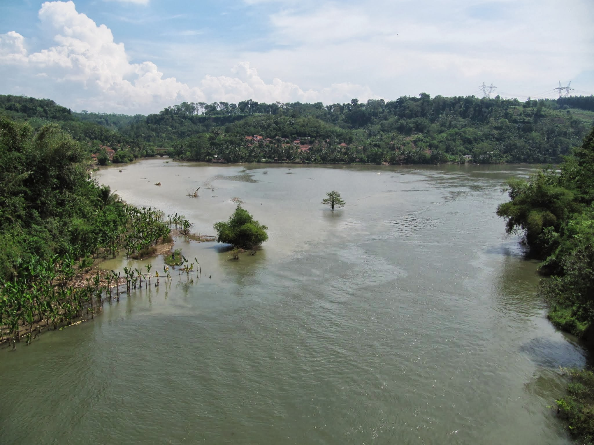 view from bridge